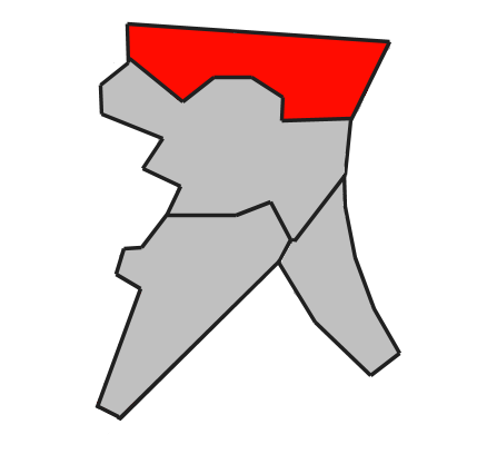 Selfdrawn map of a neighbourhood in Steenbergen.